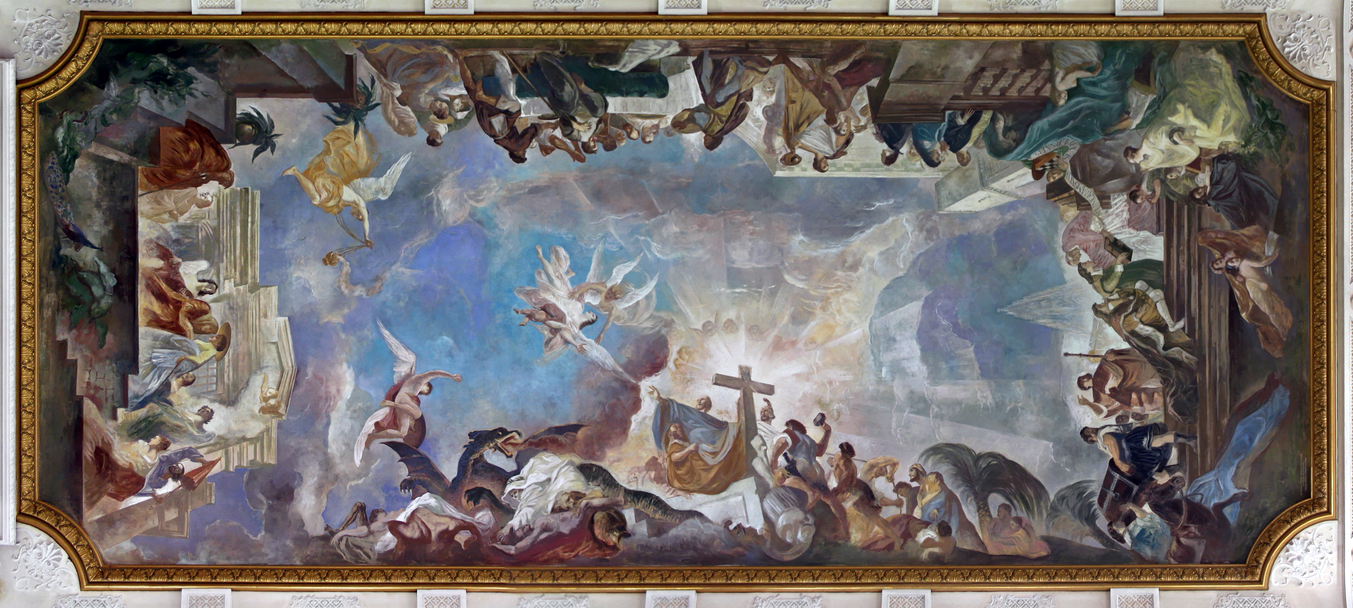 Mannheim, Germany. Palace church. Fresco from Cosmas Damian Asam (1728), western part.